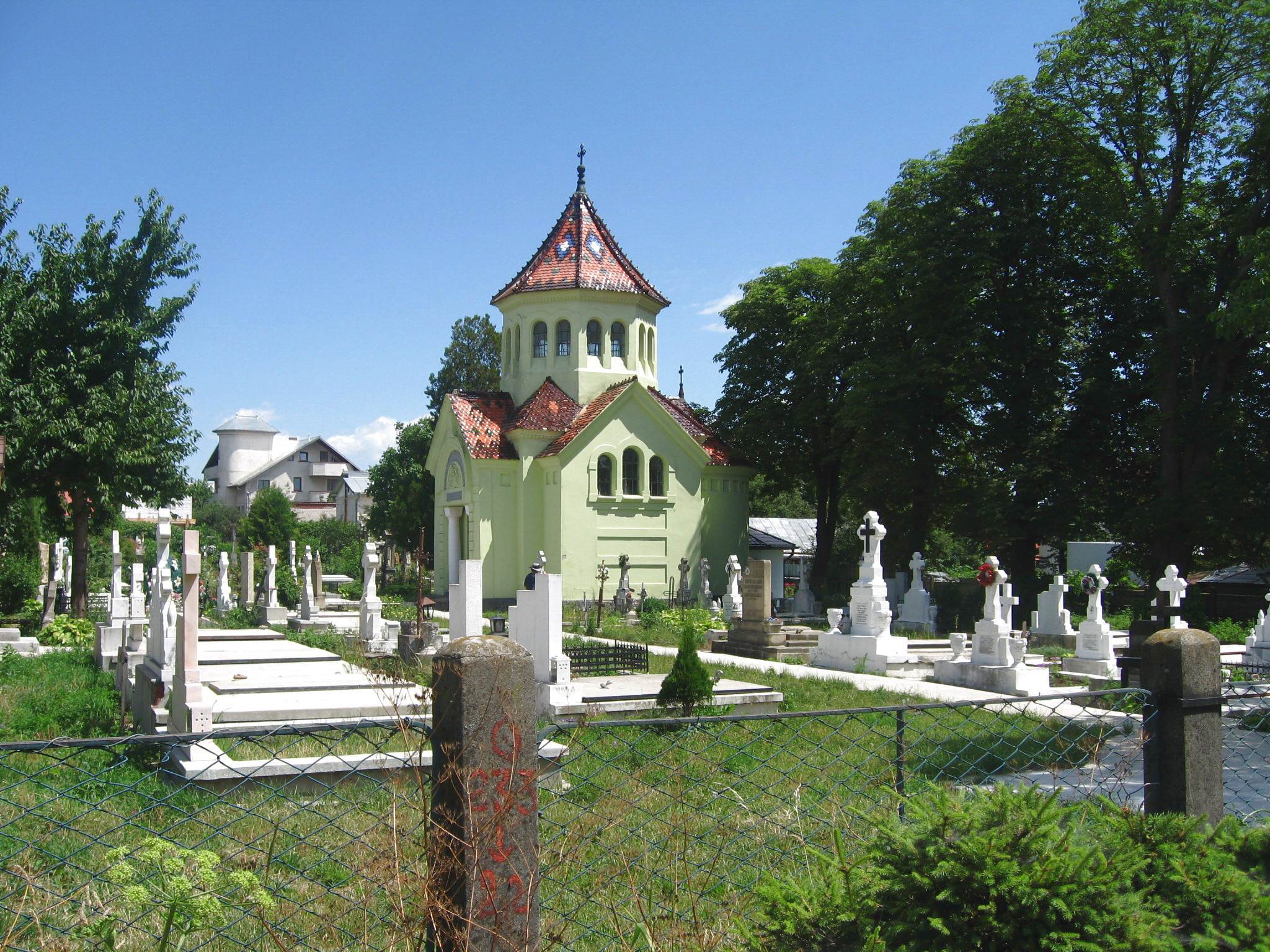 Pruncul Chapel in Suceava.